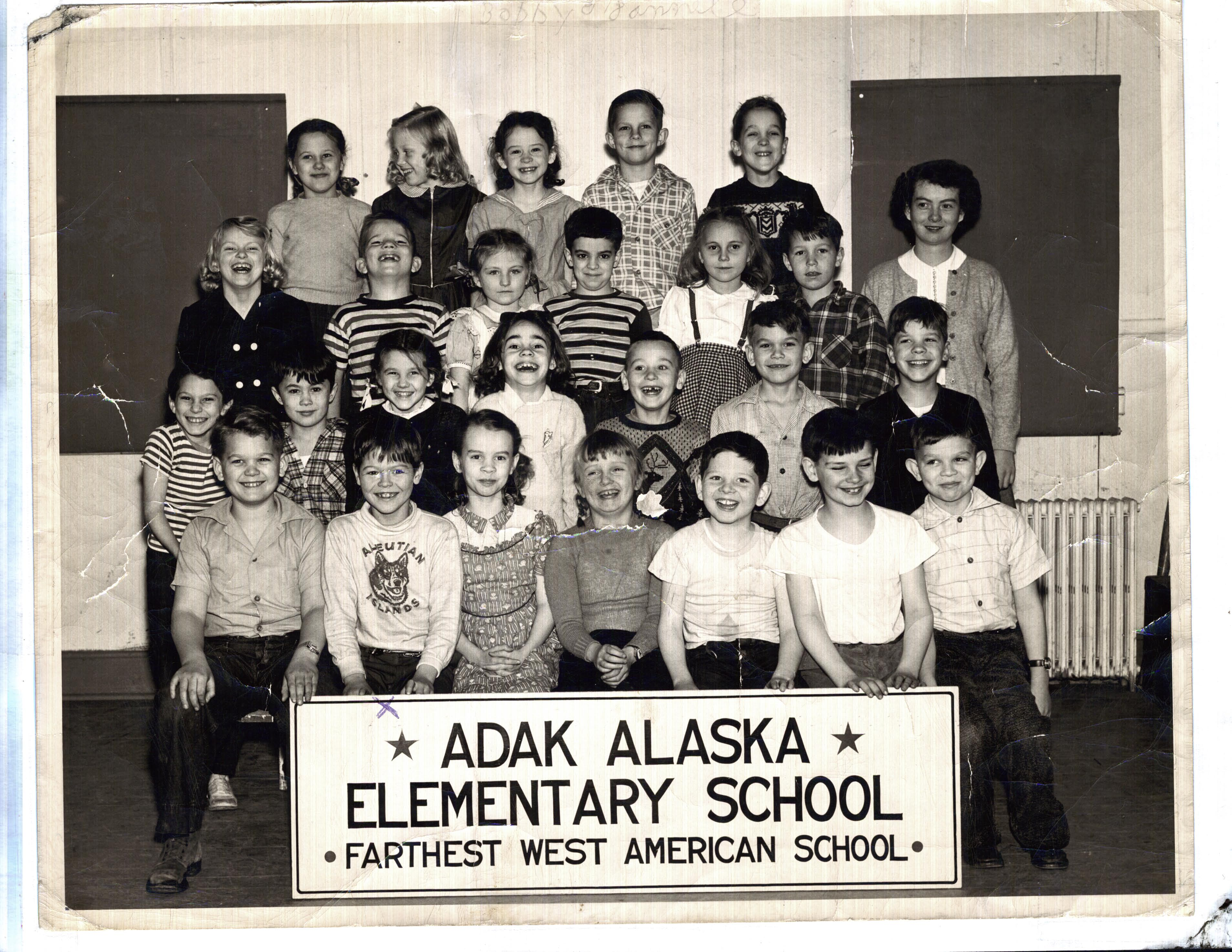 This is a class photo of the Adak school I believe was in 1947 when I was there with my father, who was in the navy stationed at the power plant on Adak island.